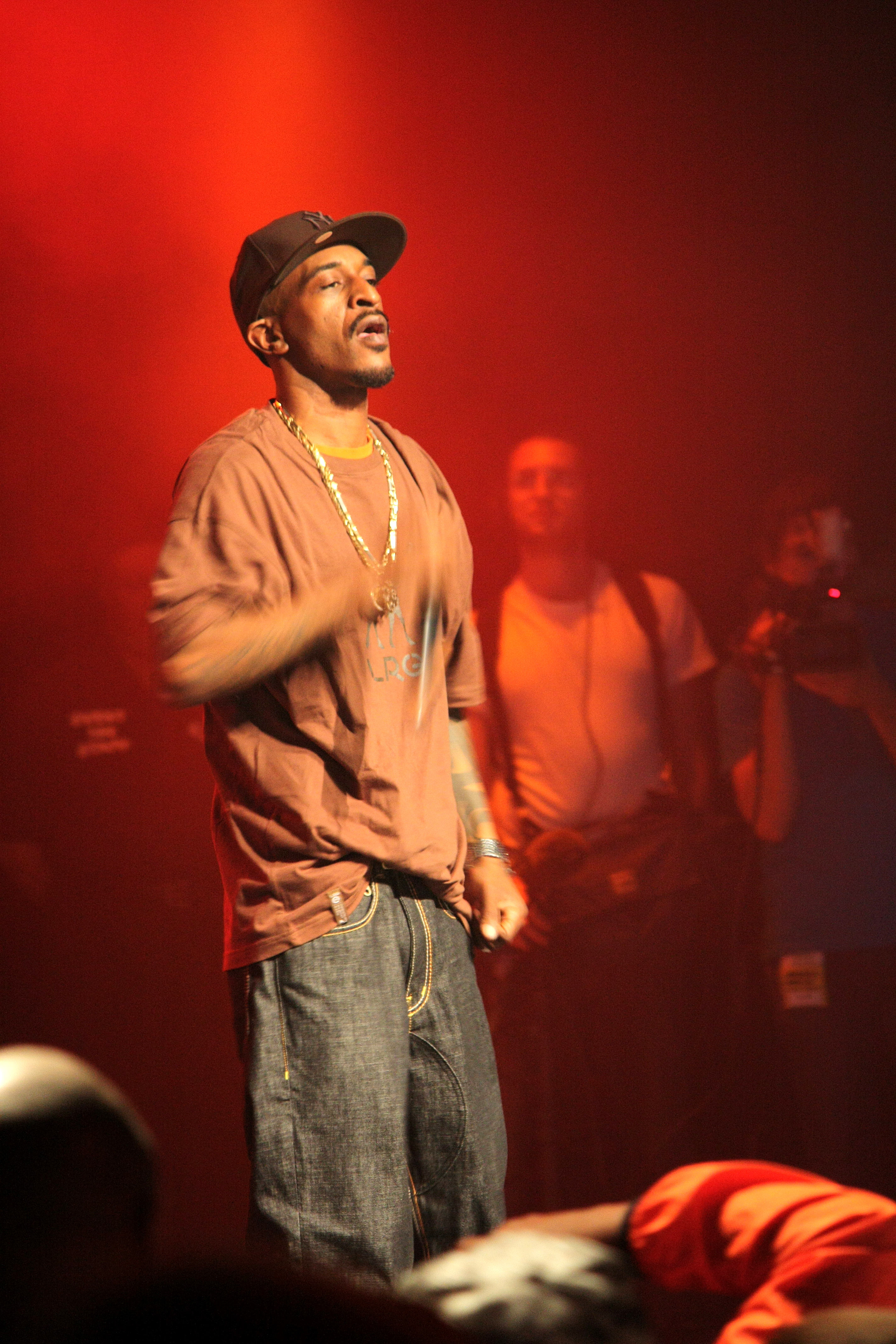 Rakim performing at the Paid Dues hip hop festival at the Nokia Theatre in New York City.